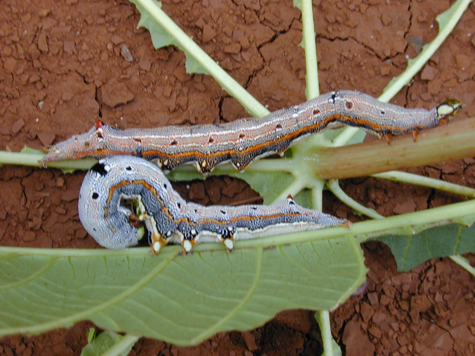 Ricinus communis (Achea janata larva). Location: Maui, Kahului